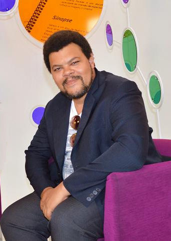 The Brazilian actor Babu Santana